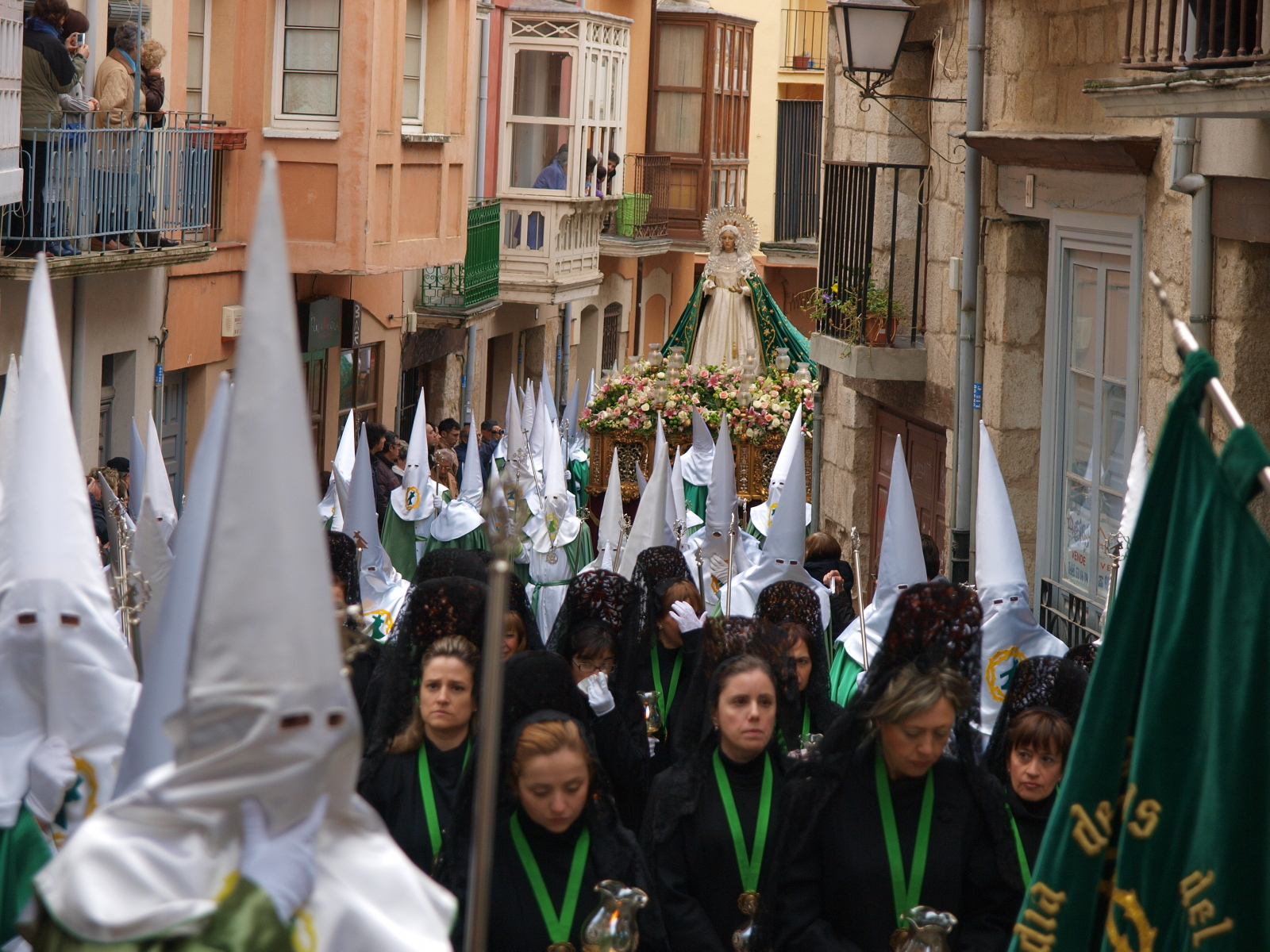 Procesion of the religious brotherhood Virgen de la Esperanza, Zamora (Spain), Holy Week 2012